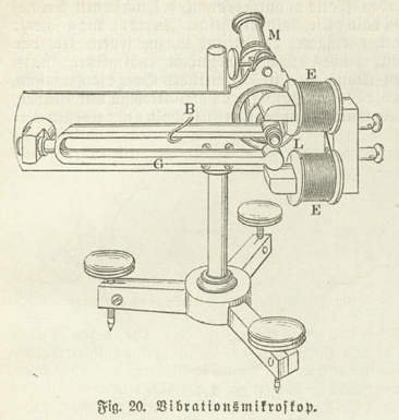 Sketch of the vibrations microscope by Hermann von Helmholtz.